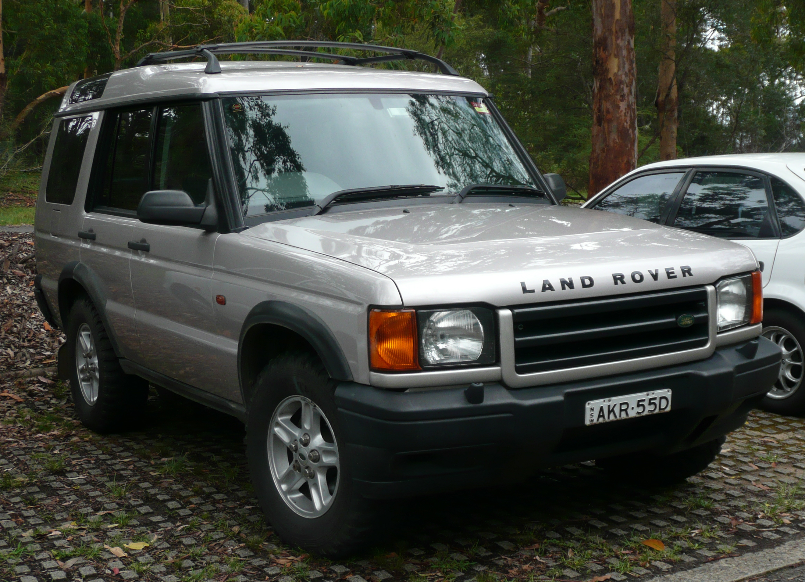 2000–2002 Land Rover Discovery II Td5 5-door wagon. Photographed in Audley, New South Wales, Australia.